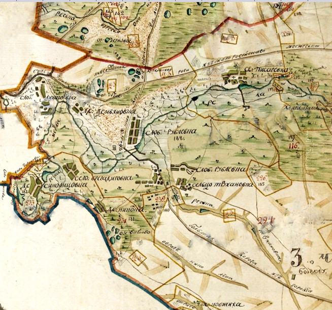 Рублівський край у складі Краснокутського повіту. 1783 р.